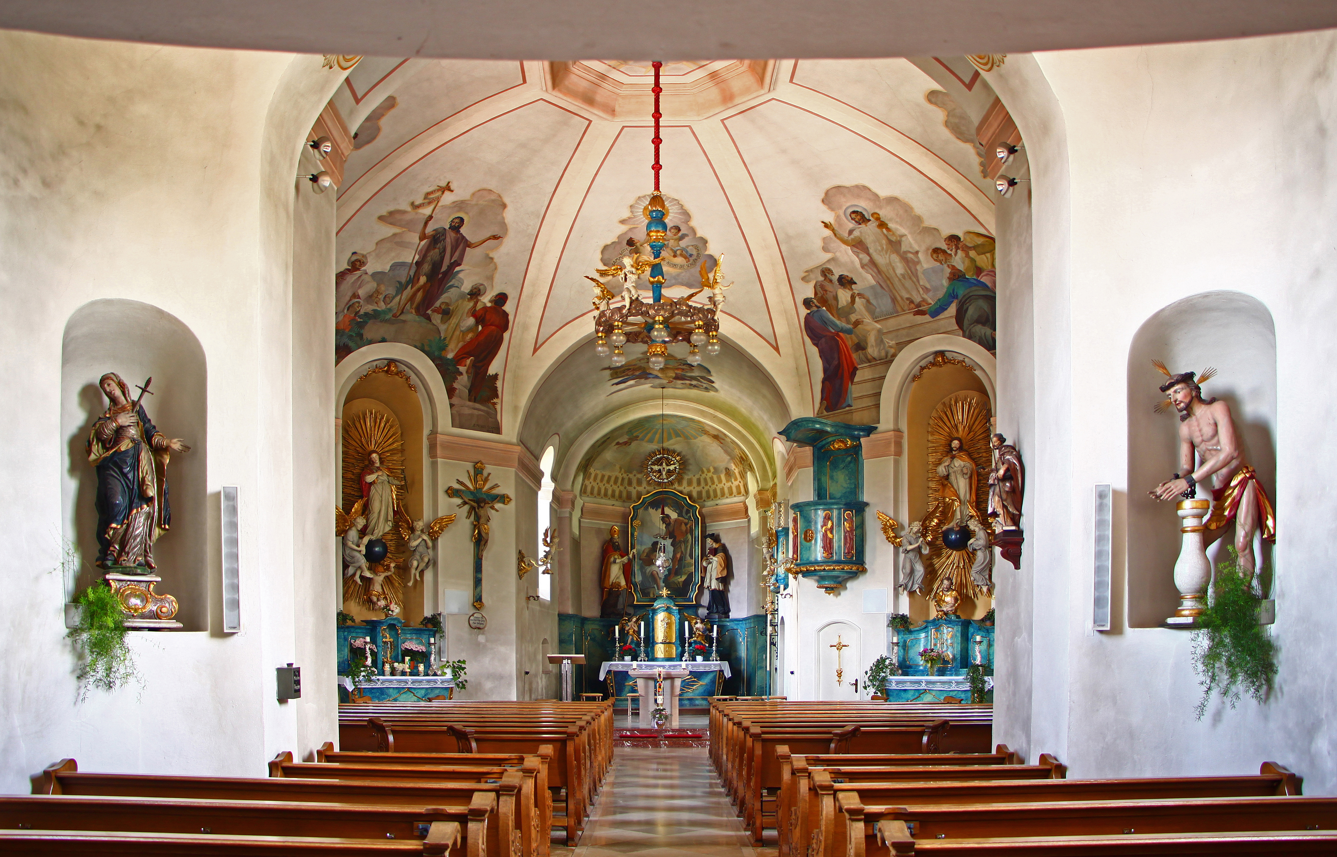 Interior of the parish church St. Johannes der Täufer, Grainau, Bavaria, Germany